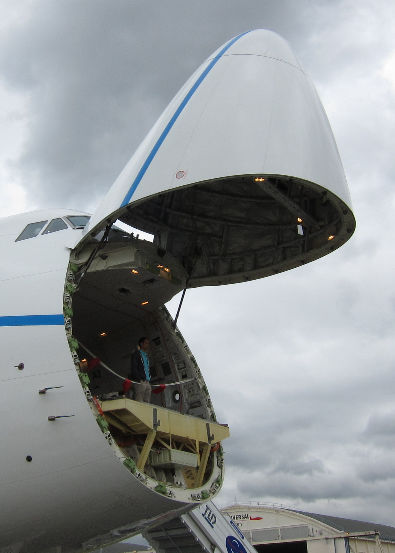 The nose cargo door of a Boeing 747-8F freighter shown open during static display at the 2011 Paris Air Show. The lower deck front cargo door, also open, is visible in the bottom left corner.